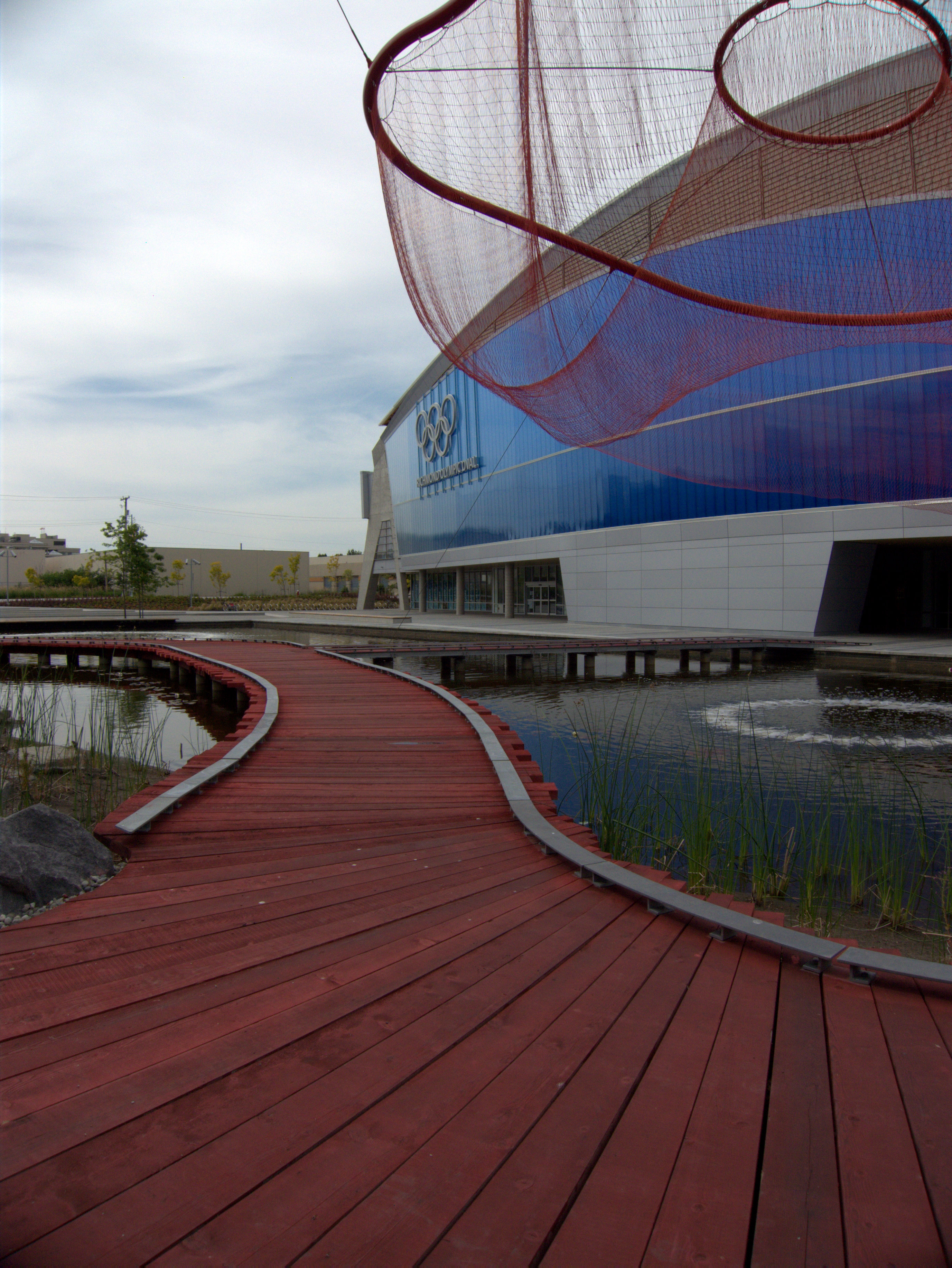 Taken at the Richmond Olympic Oval